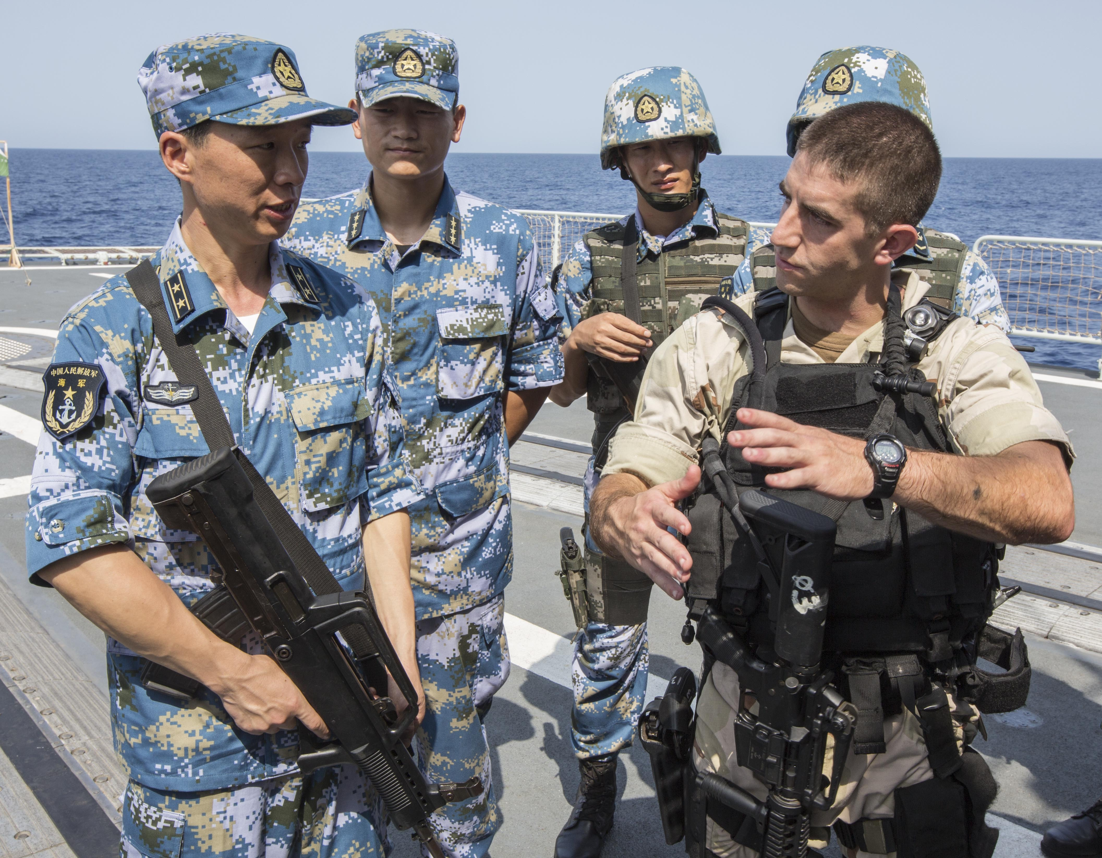 Lt. j.g. Jeffrey Fasoli, gunnery officer aboard the guided-missile destroyer USS Mason (DDG 87), discusses techniques with Chinese sailors aboard the People's Liberation Army (Navy) destroyer Harbin (DDG 112) prior to a combined small-arms exercise. Mason is deployed in support of maritime security operations and theater security cooperation efforts in the U.S. 5th Fleet area of responsibility. Read more